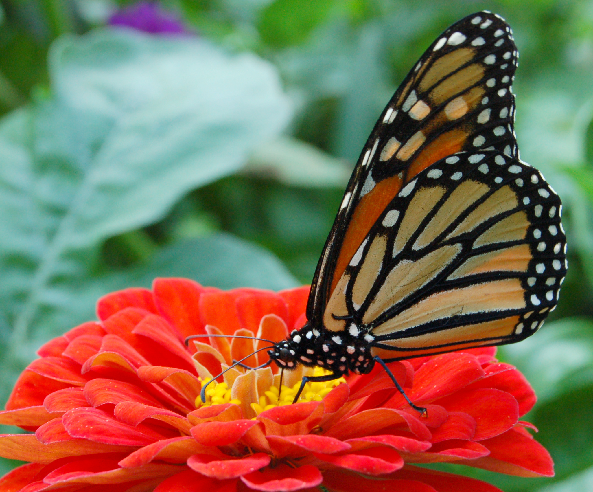 Photograph of a Monarch butterfly (Danaus plexippus en ) on an unidentified red Zinnia flower. The picture was taken in Aston Township, Pennsylvania.